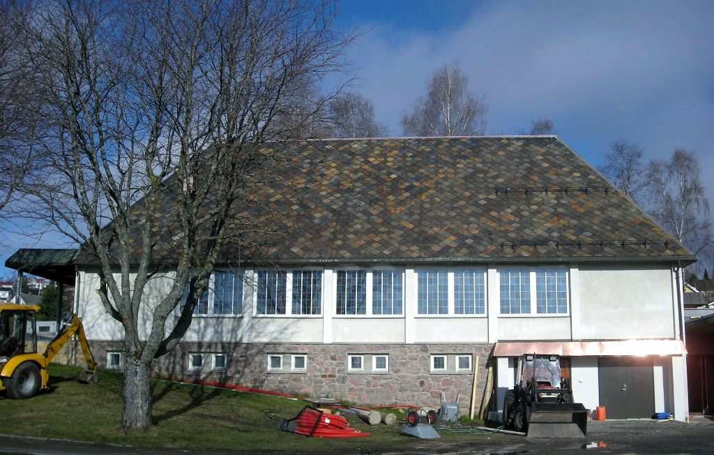 Hunn funeral chapel, Gjøvik